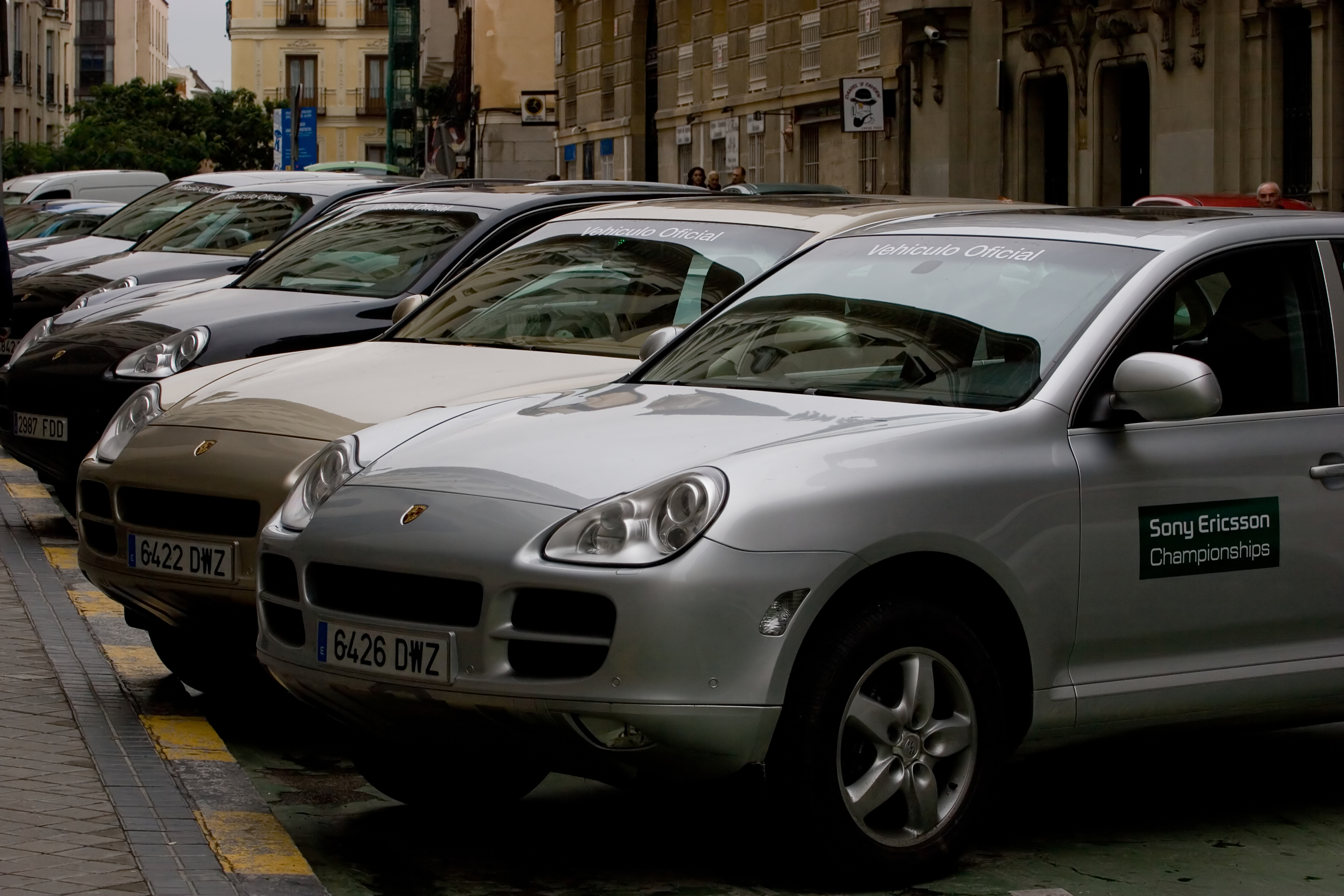 Sponsorship Porsches during WTA (Women's Tennis Association) Sony Ericsson Championships tournament in Madrid, Spain.